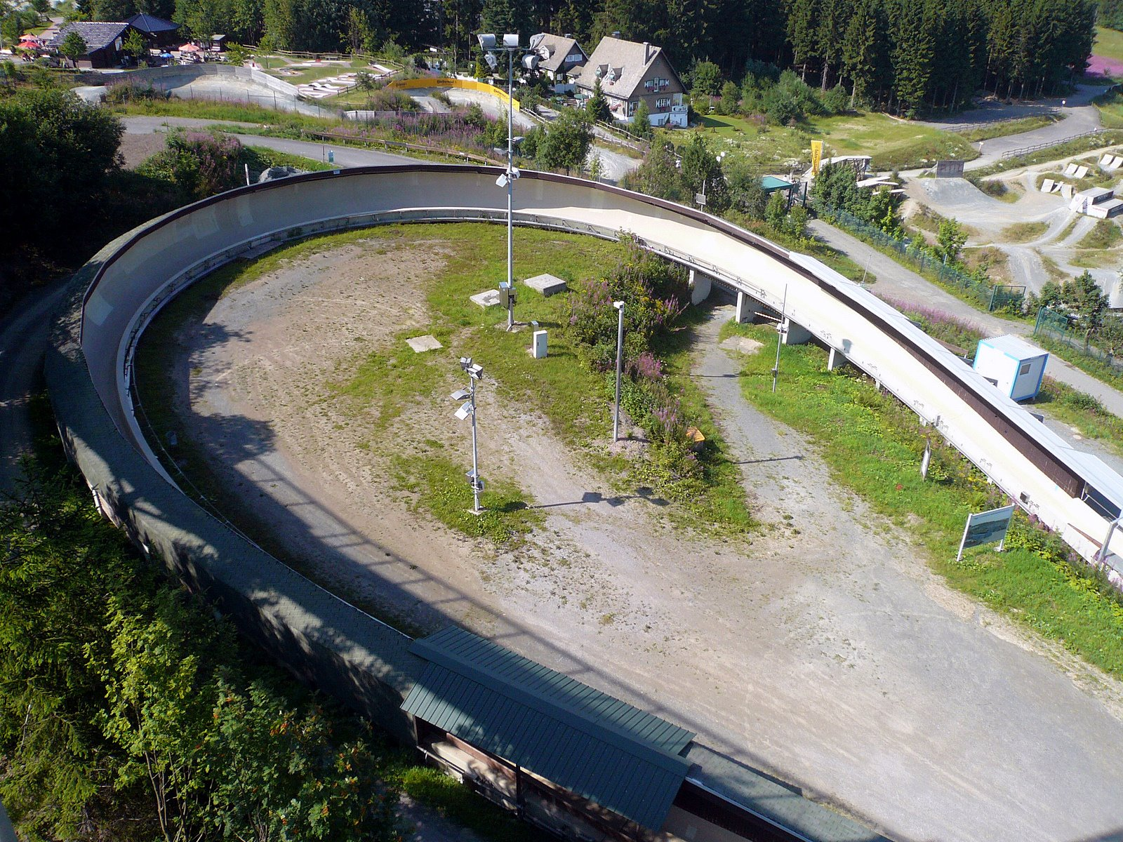 Winterberg bobsleigh, luge, and skeleton track, Omega-Turn